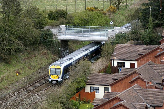 A railway bridge. A railway bridge at Thornhill Rd, Dunmurry. It is impossible to make a lineside photo of the bridge, due to the railway being built on a embankment, and also heavyly overgrown with bushes/trees etc. The milepost on the lefthand side reads 108, this is the distance from Amiens St, Dublin, and it is another 4.5 miles to go before reaching Belfast. the train in the photo is travelling from Belfast (right) to Lisburn (left). This image was made from the 12th floor multi-storey block of flats at Seymour Hill. The houses to the bottom right of the photo, have been constructed within the last 5 years. Previously this area was farmland.